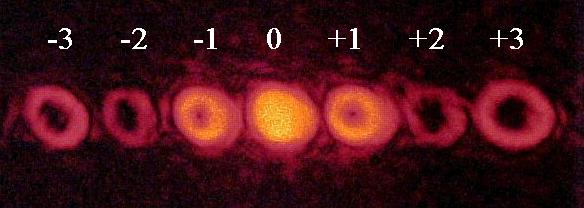 Photo by Azure Hansen, Stony Brook University, 2004.